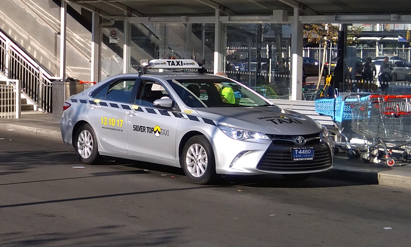 Southern entrance to Blacktown railway station.